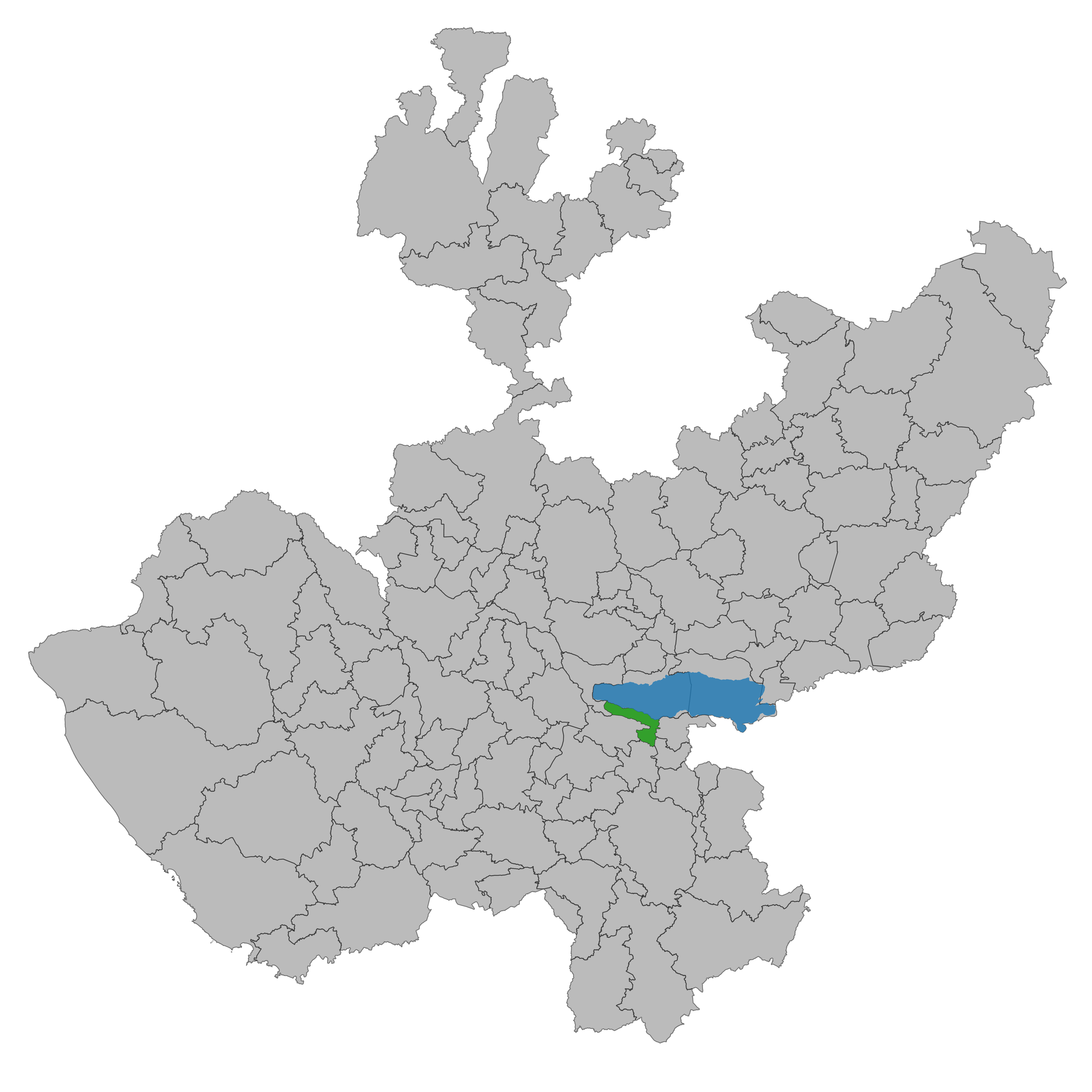 Municipality of Jalisco. Prepared with the software QGIS version 2.8.2 Wien & with information of SCINCE 2010 version 05/2013